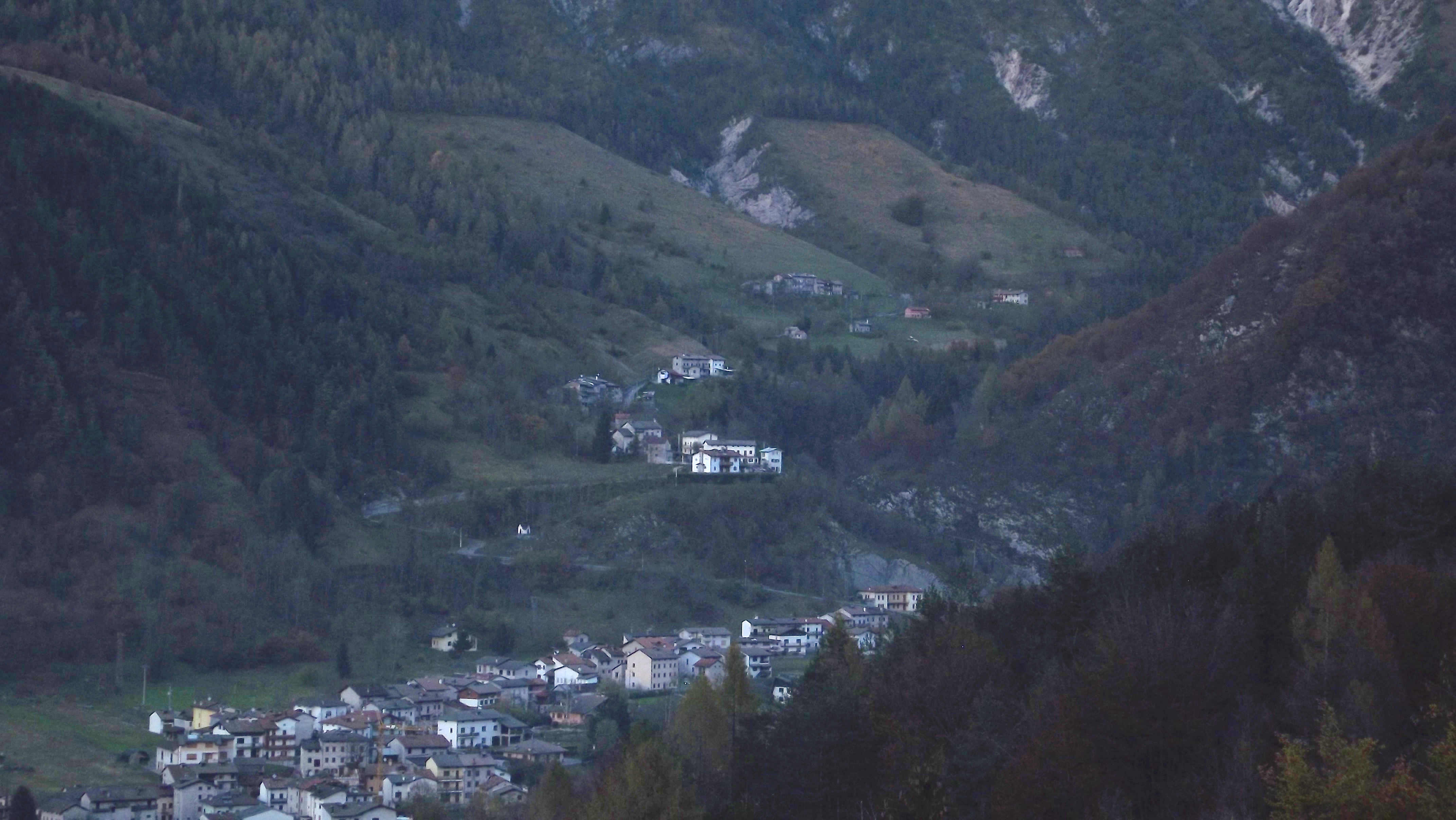 View of two boroughs of Claut: Mariae (on the bottom) and Creppi (on the top).